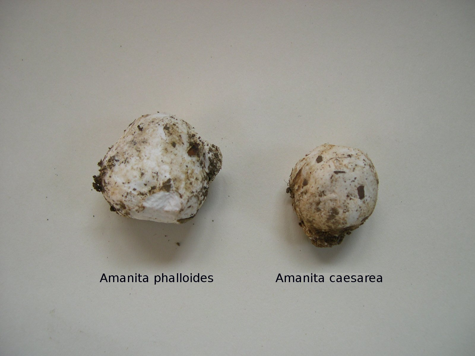 Comparison between Amanita phalloides and Amanita caesarea. Tagalog: Paghahambing sa pagitan ng Amanita phalloides at Amanita caesarea.